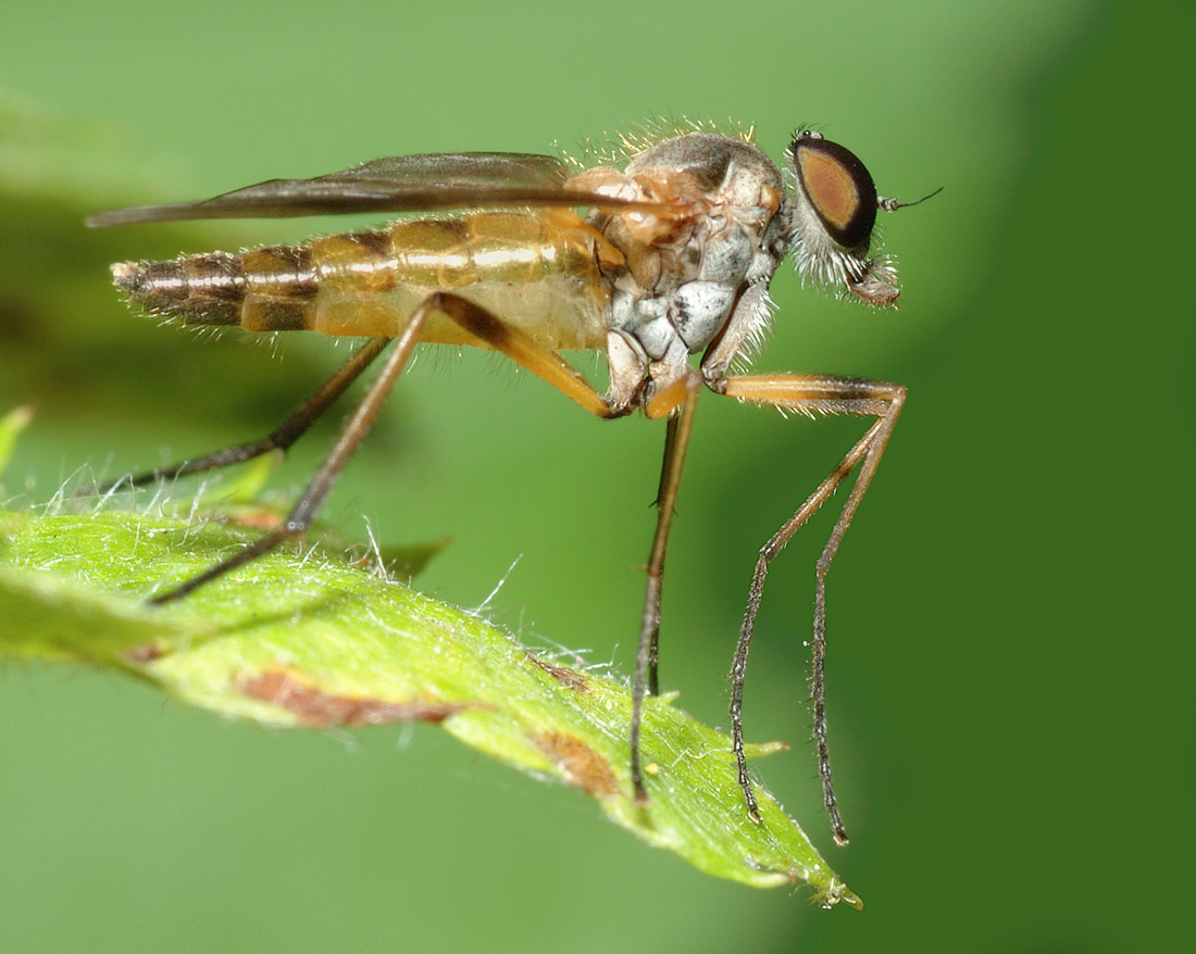 This image shows an about 0.3 inch (8 mm) long snipe fly of the species Rhagio lineola. Thanks to Doc Taxon for identifying this animal.